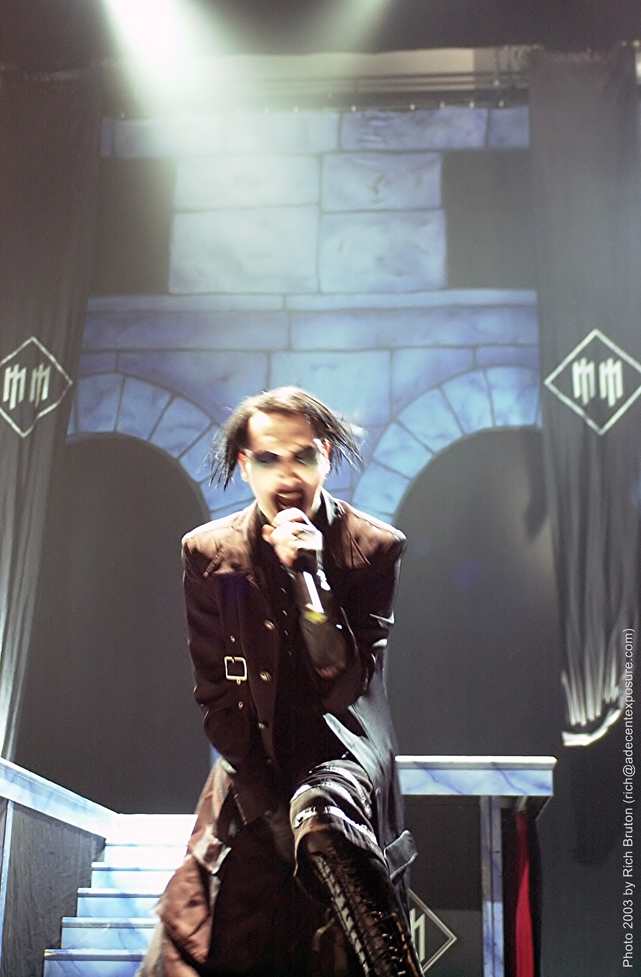 This picture was taken by Rich Burton at a 2003 concert by Marilyn Manson.